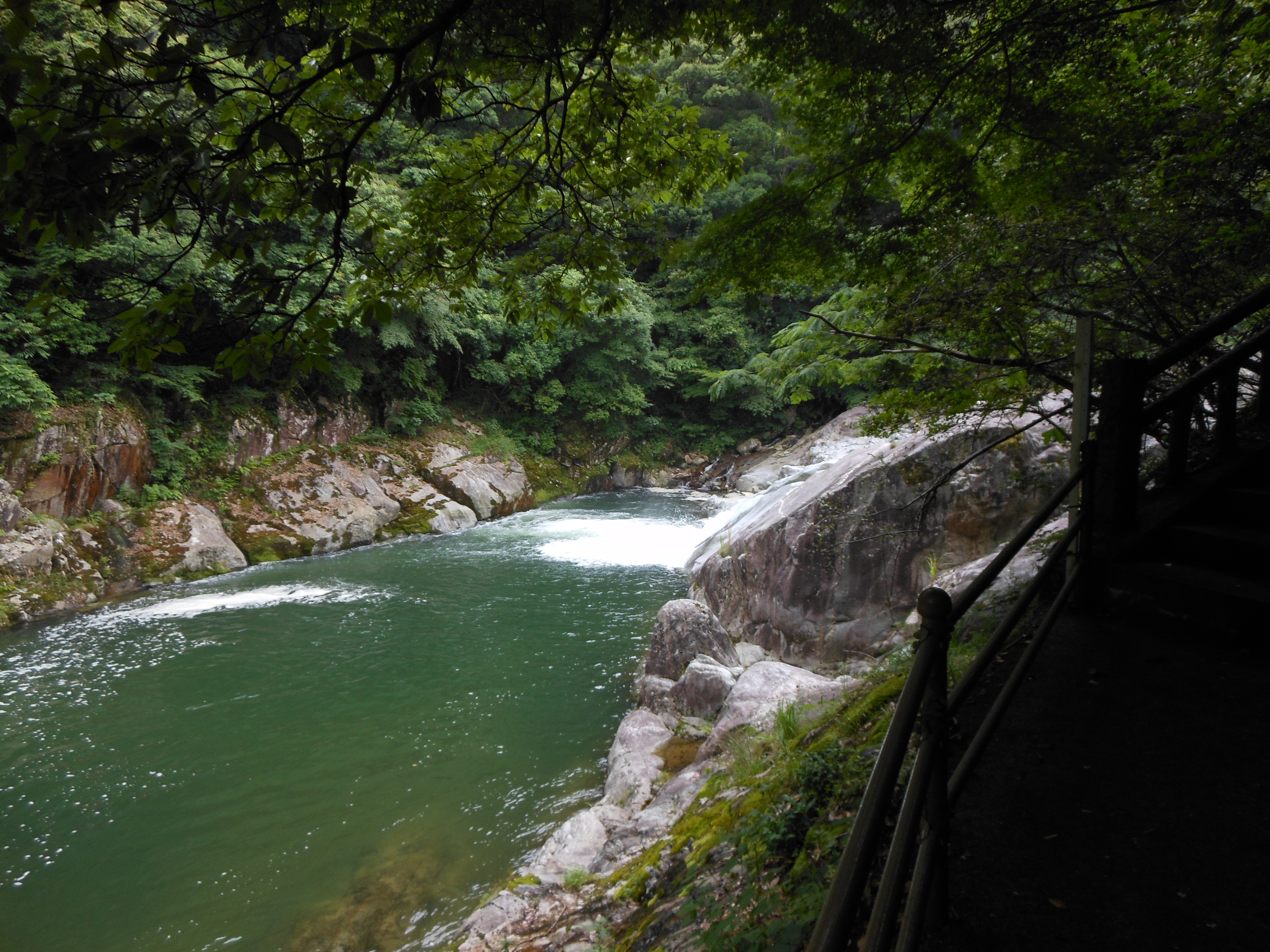 Obuchi-Mebuchi, Kase River